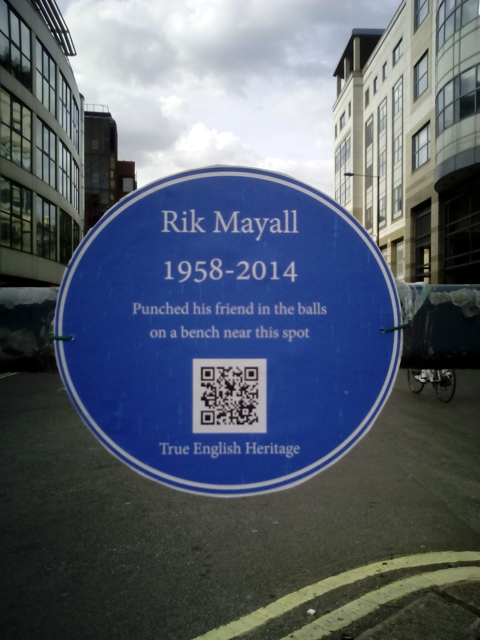 Rik Mayall plaque in Hammersmith close-up